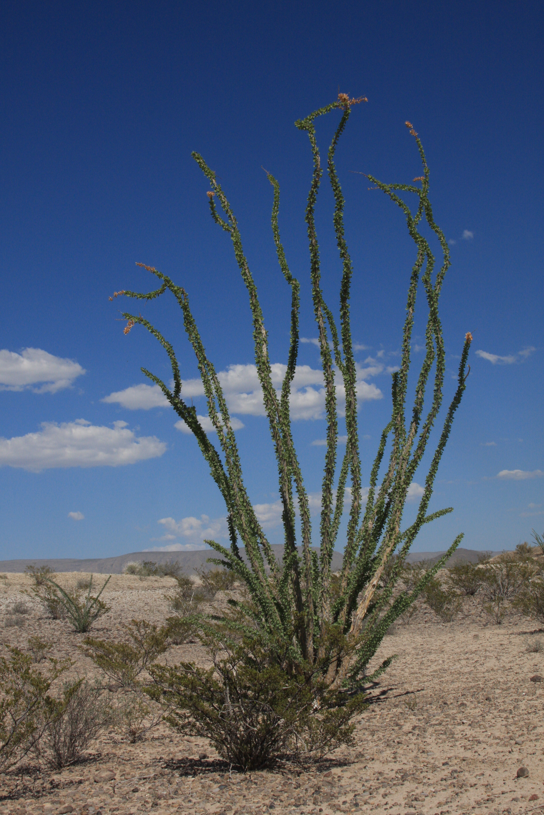 Ocotillo (Fouquieria splendens), also called coachwhip, or Jacob's staff. Shown in the photo dotted with green leaves in summer. Photo taken at Fossil Exhibit, Big Bend National Park, Texas, USA.